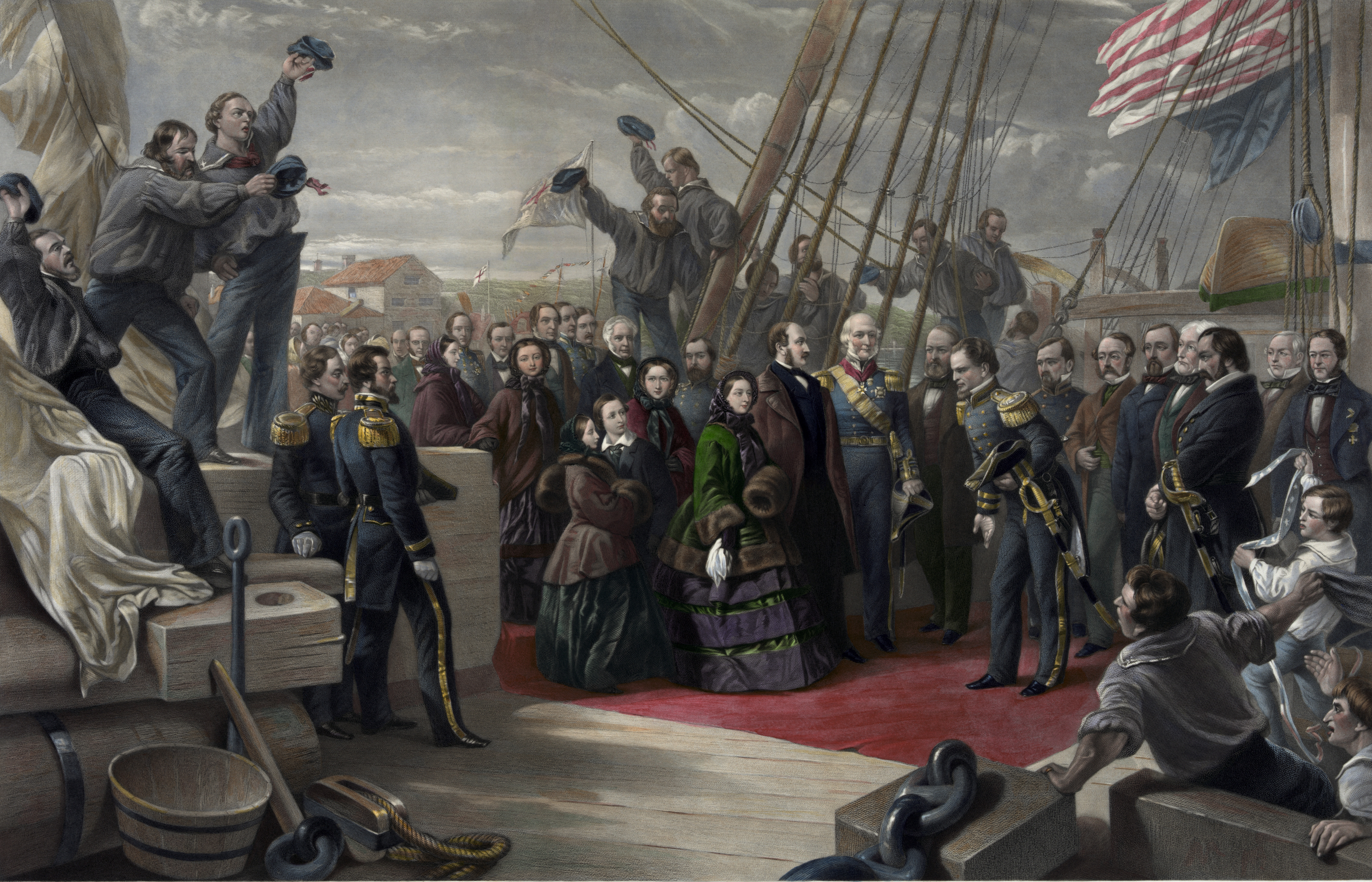 England and America. The visit of her majesty Queen Victoria to the Arctic ship Resolute - December 16th, 1856, to whom this engraving is by special permission respectfully dedicated by her obedient servants, P. & D. Colnaghi & Co., an engraving by George Zobel after the artwork of William Simpson, showing the visit of Queen Victoria to HMS Resolute, an Arctic ship that, having been lost to the ice, had recently been recovered by the Americans, and returned by them to the British.